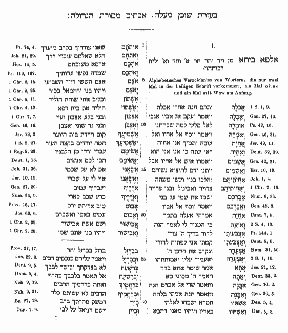 Sefer Oklah we-Oklah, Frensdorff edition